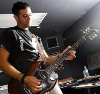 George in West Lake recording studio